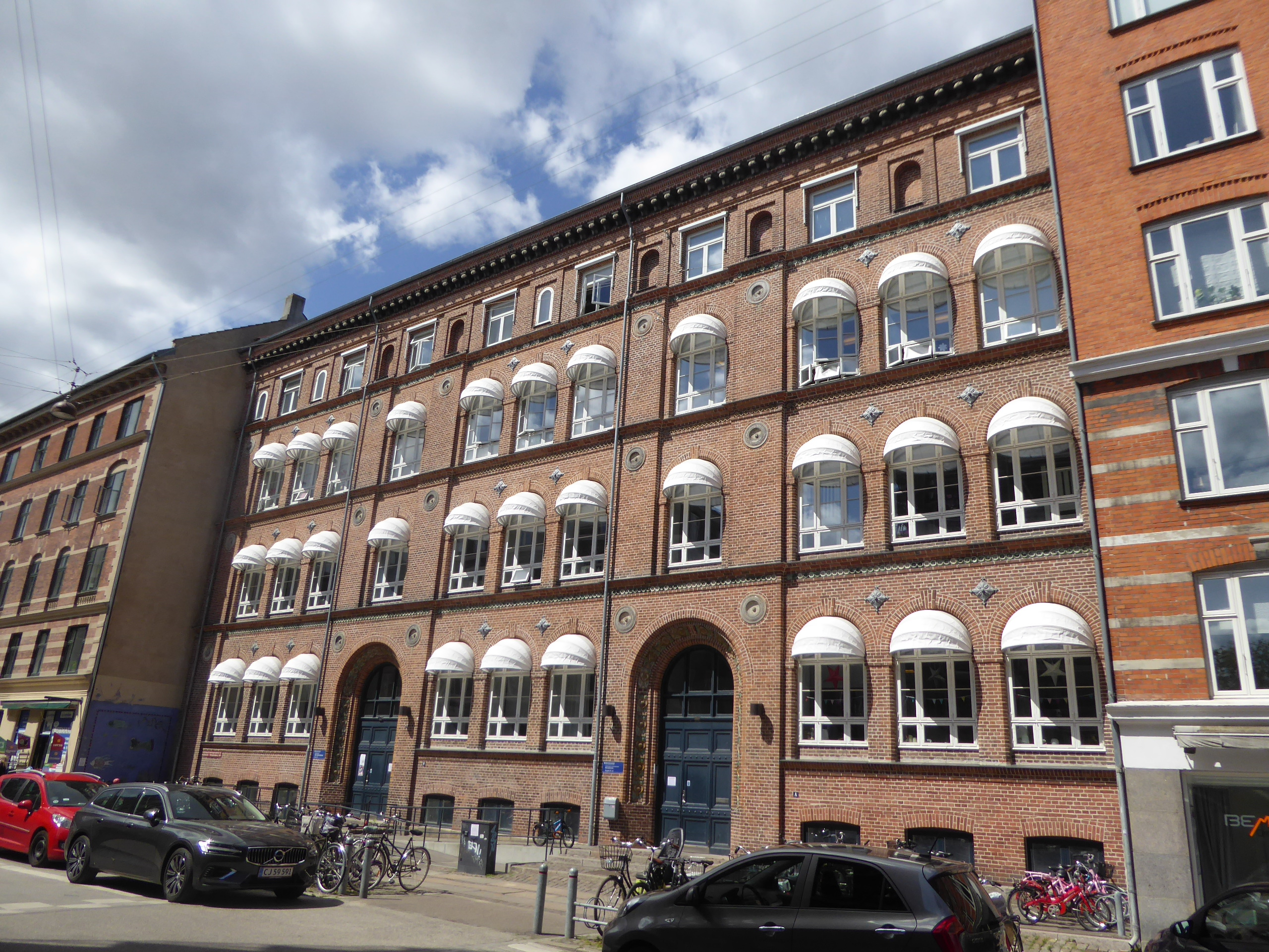 The former school Ryesgades Skole at Ryesgade in Østerbro in Copenhagen. It is now an after-school institution for the nearby Sortedamskolen.